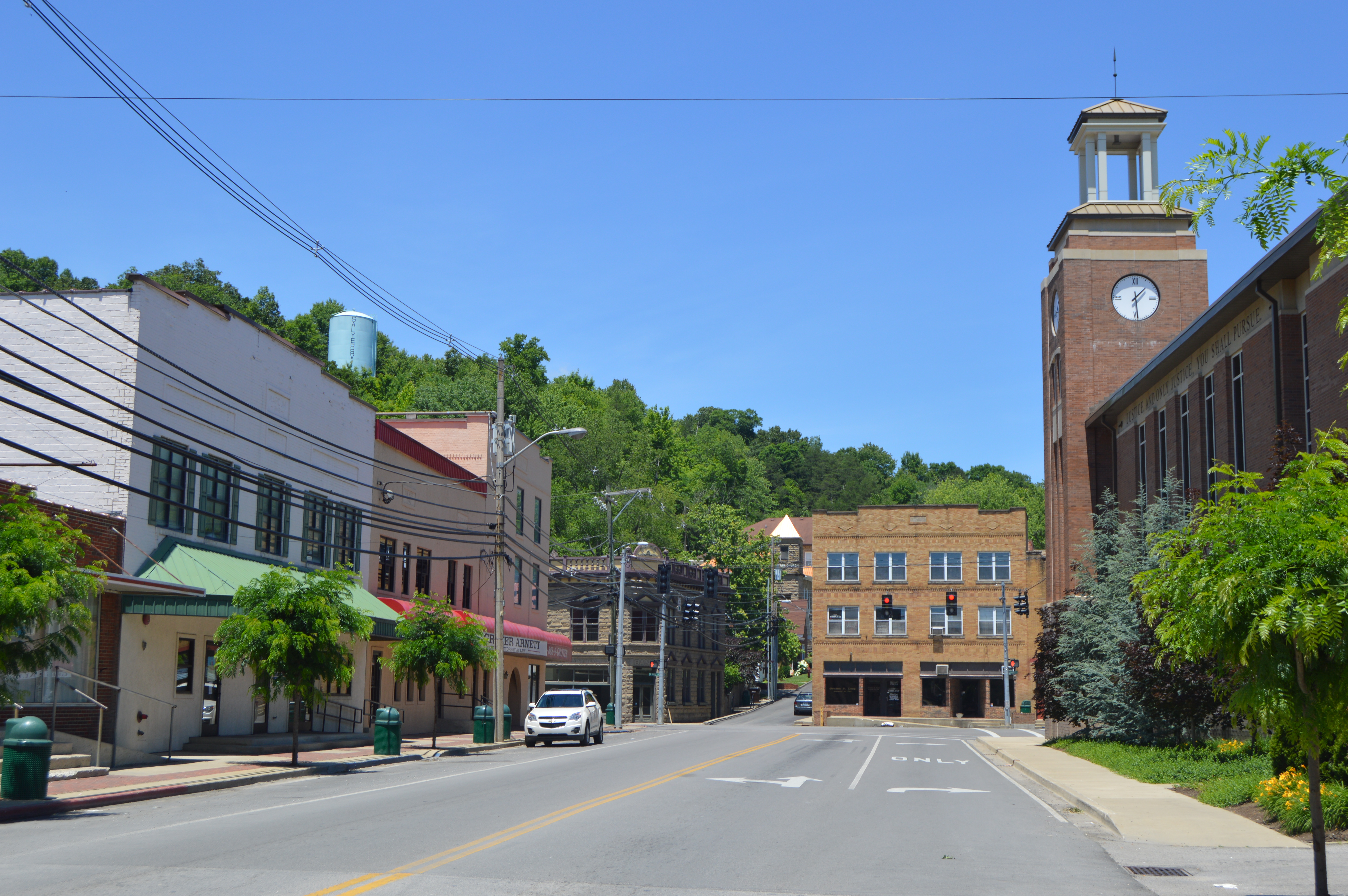 Looking northward toward the junction of Church and Maple Streets (U.S. Route 460/Kentucky Routes 7 and 40) in downtown Salyersville, Kentucky, United States. The building in the distance, built of light-colored brick, is the Carpenter Building, constructed in 1936.